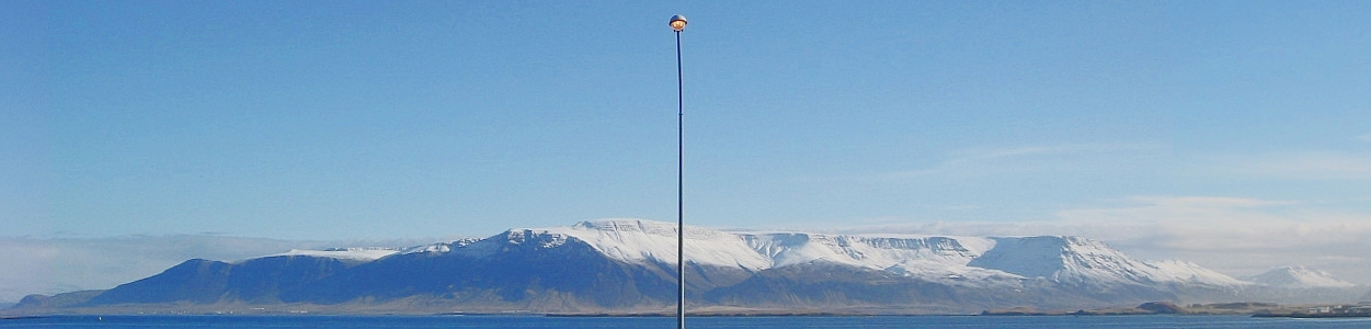 The mountain range Esja